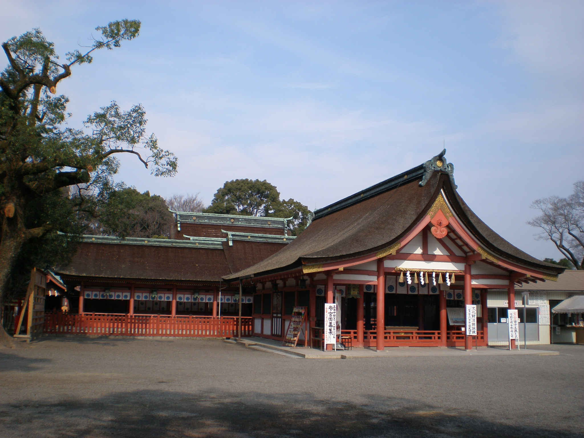 The haiden (worhip hall) at Tsushima Shrine, Tsushima, Aichi Prefecture.